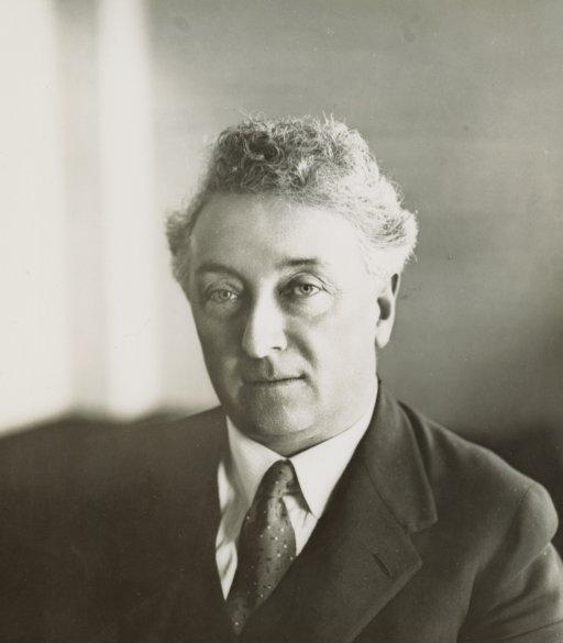 Portrait of the Australian politician Joseph Lyons (1879–1939) as Prime Minister of Austrilia.